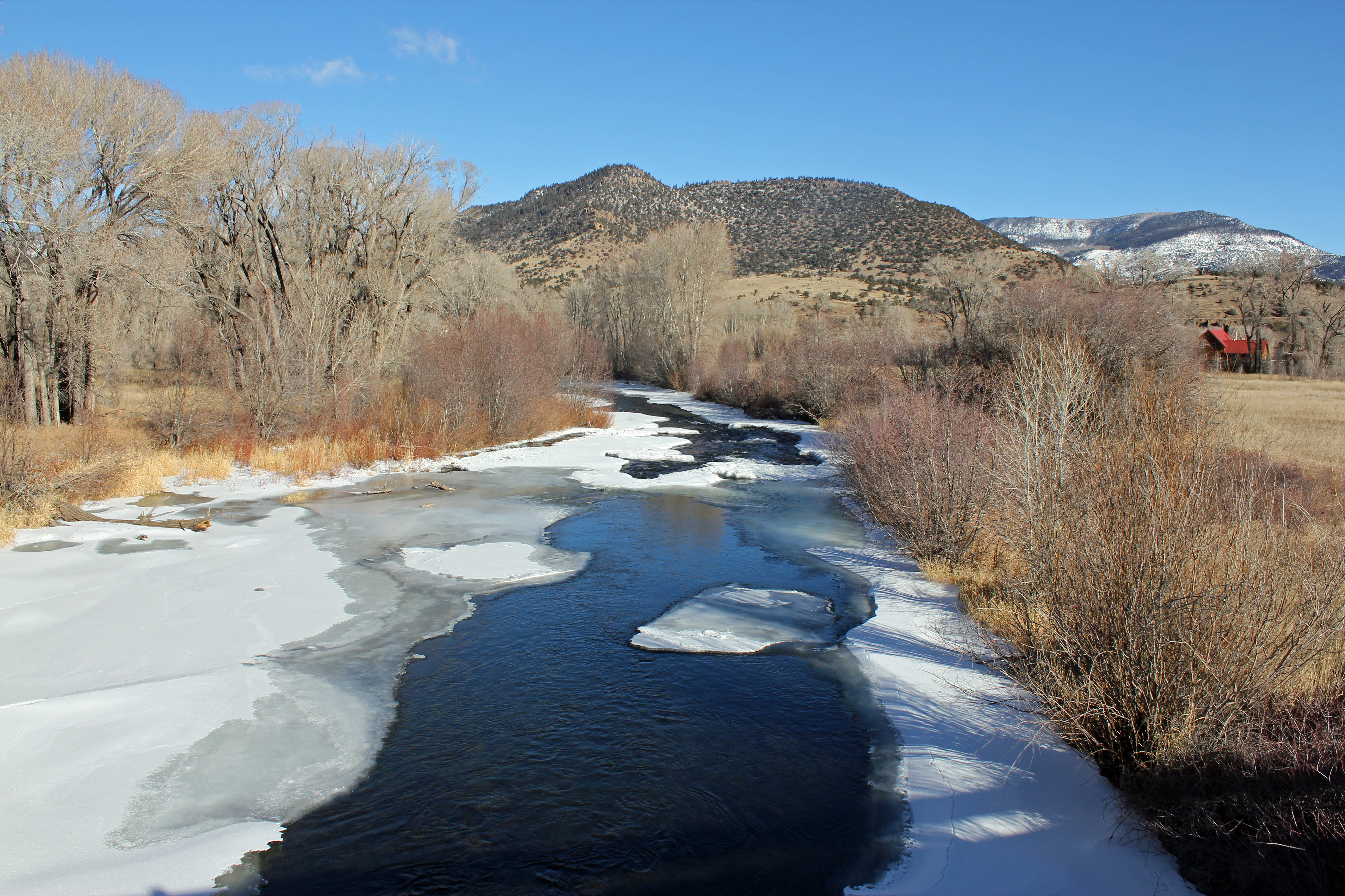 The South Fork Rio Grande River. This view is from the U.S. Route 160 bridge over the river in South Fork Colorado. The view is to the north. This is near the mouth of the river, that is, where it empties into the Rio Grande.